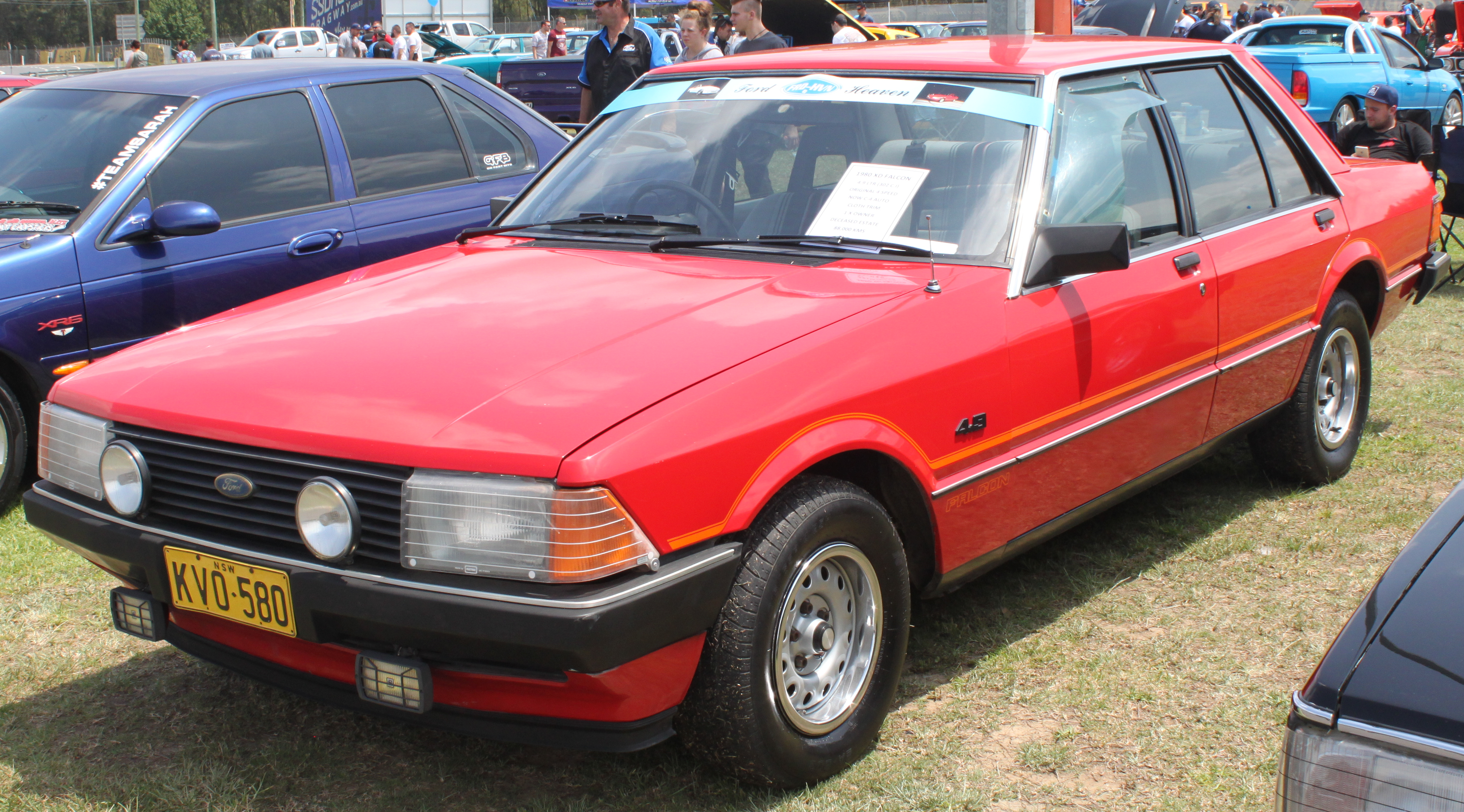 All Ford Day, Eastern Creek NSW, November 2014